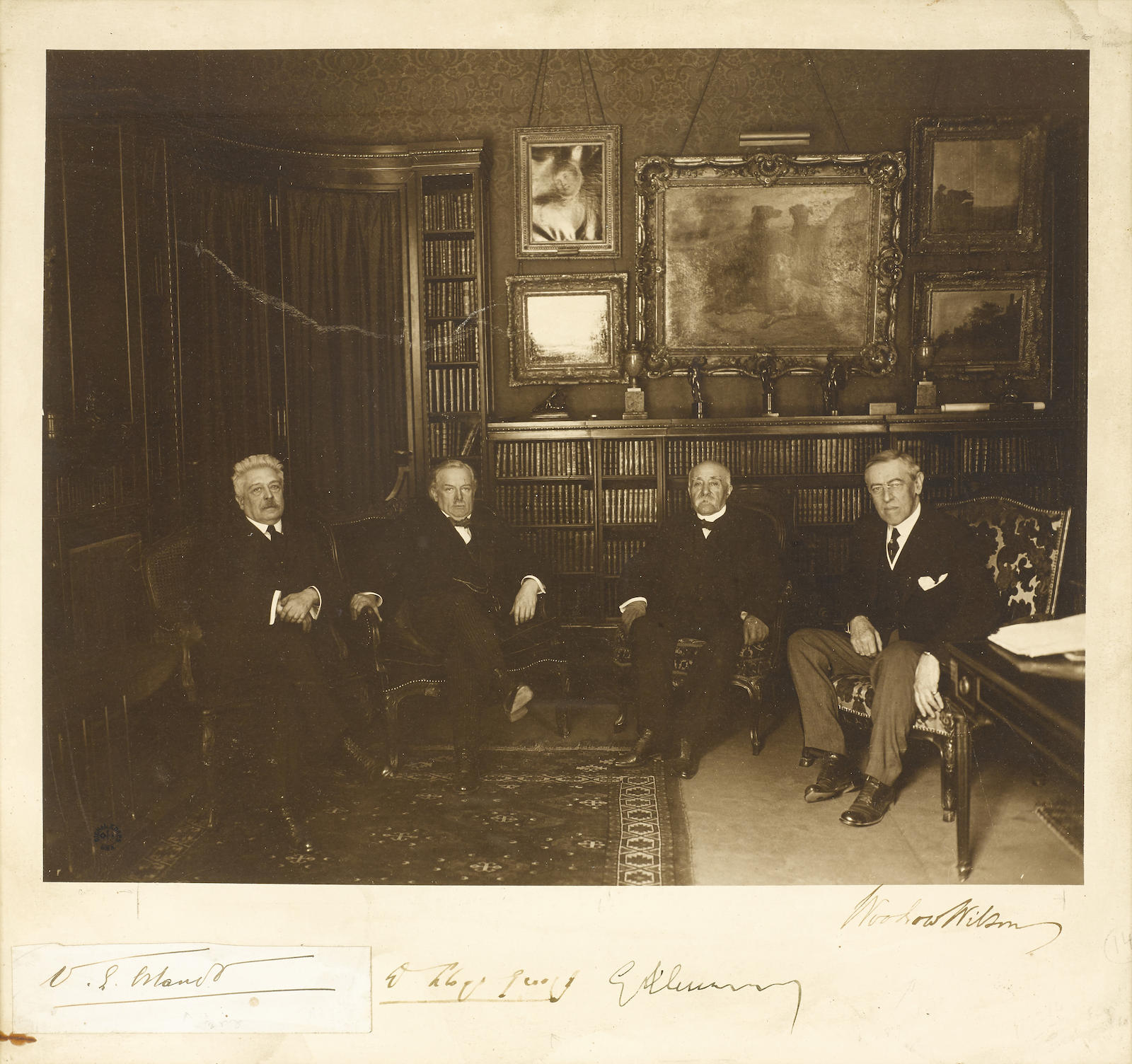 Photograph Signed by the "Big Four" of the Versailles Peace Conference, 10 7/8 x 13 3/4 inch print on 14 1/2 x 15 1/2 inch card, [Paris, 1919] signed in lower margin by WOODROW WILSON ("Woodrow Wilson") as President of the United States, GEORGES CLEMENCEAU ("G Clemenceau") as Premier of France, DAVID LLOYD GEORGE ("D Lloyd George") as Prime Minister of the United Kingdom, and VITTORIO ORLANDO ("V.E. Orlando) as Prime Minister of Italy.